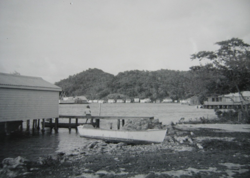 Peaceful Oak Ridge, Roatán (Bay Islands) in 1968.